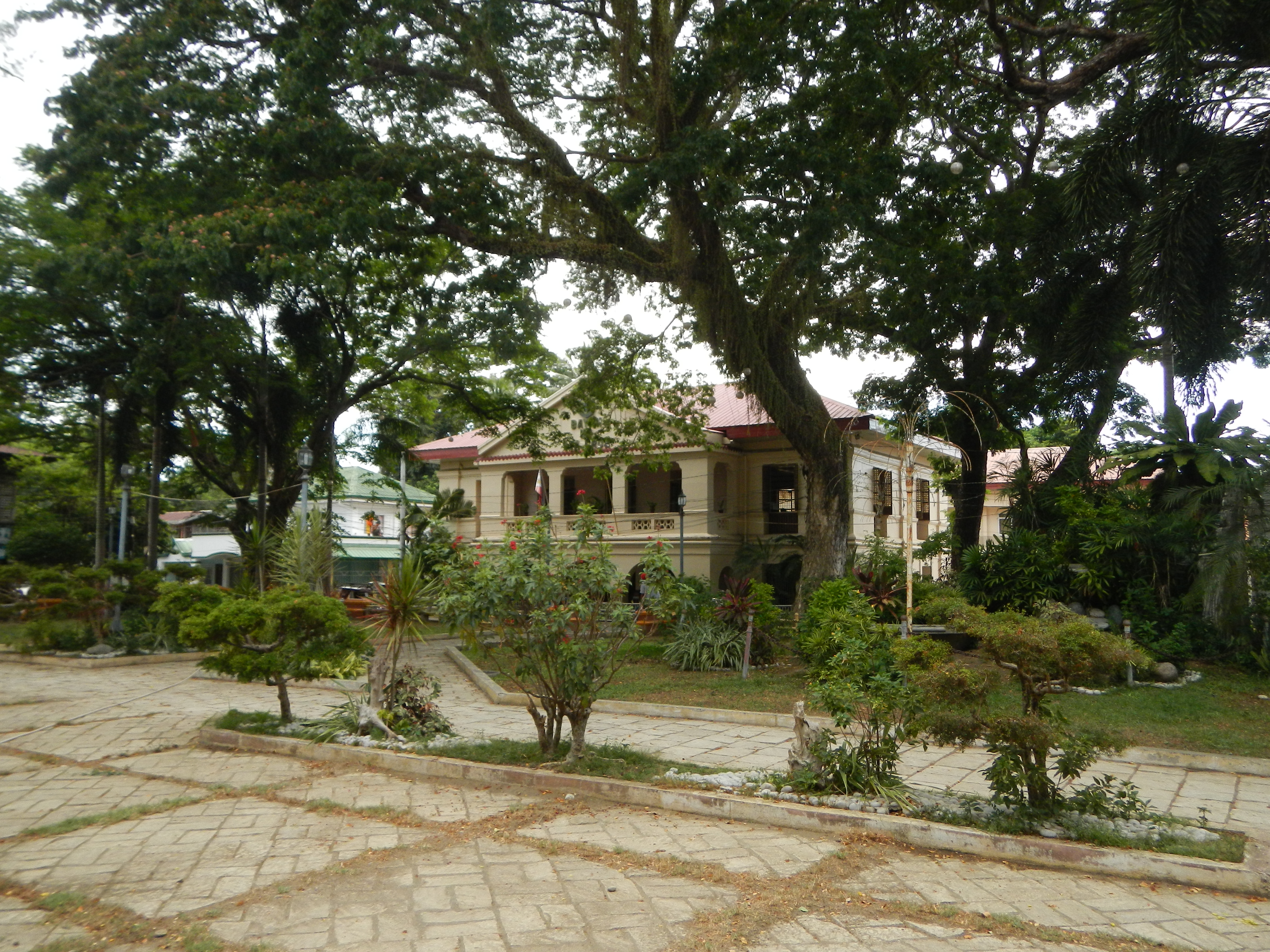 Santa Cruz, Ilocos Sur (interior and facade of Santa Cruz, Ilocos Sur Municipal Hall, from the Pan-Philippine Highway or Maharlika Highway, towards Poblacion Este, Poblacion Norte, Poblacion Weste, Poblacion Sureste Santa Cruz, Ilocos Sur Ilocos Sur province, the Town Hall, the Gen. Antonio Luna monument in the People's & Children's Park, beside the Parishes of the Roman Catholic Archdiocese of Nueva Segovia Immaculate Conception Parish Church Sta. Cruz, Santa Cruz, Ilocos Sur F-1603 2713 Ilocos Sur, Titular: Immaculate Conception, Dec. 8 Feast Parish Priest: Father Jerry R. Avisa Parochial Vicar: Father Rufo V. Abaya beside the Santa Cruz Institute (Santa Cruz Town Proper)).